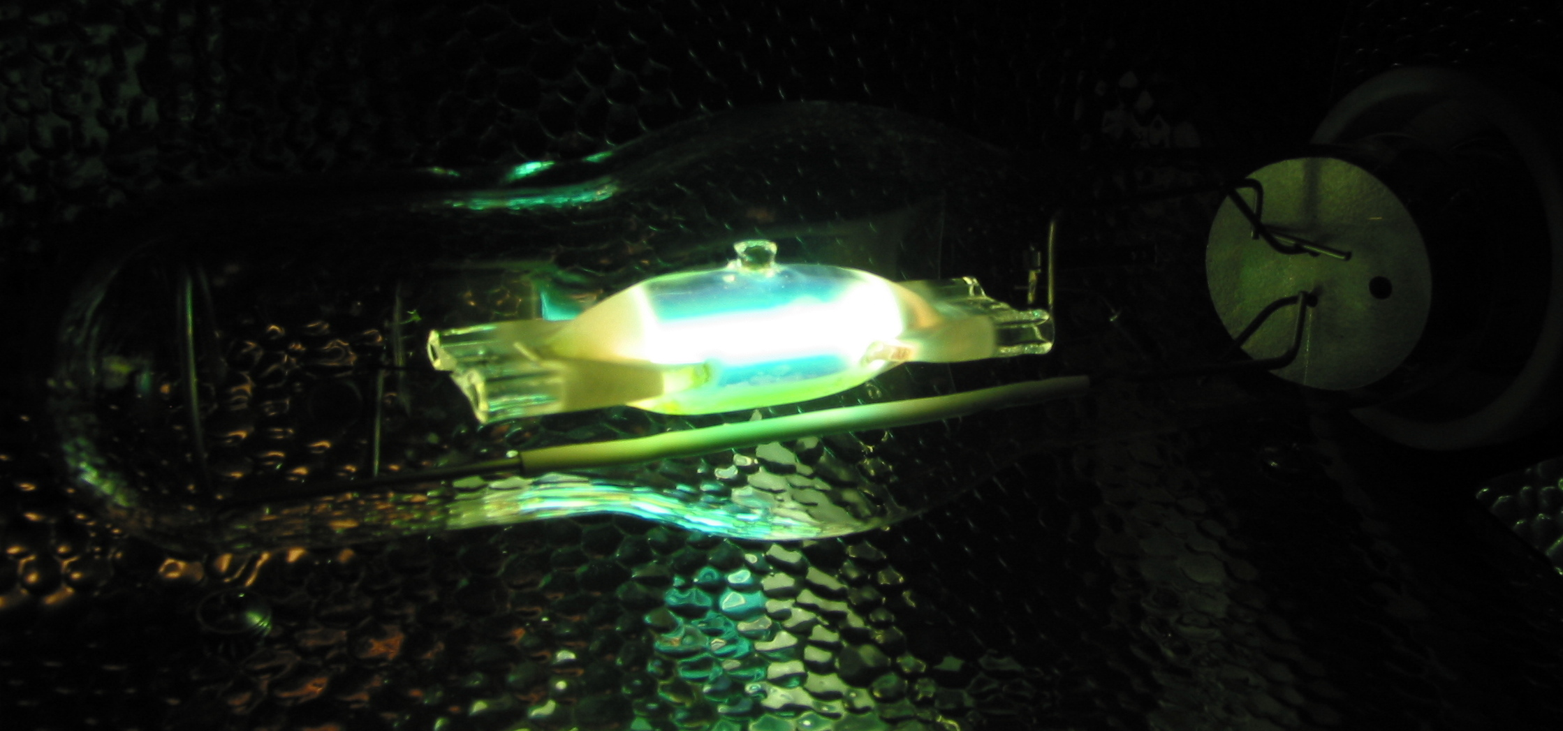 Metal halide lamp (Sylvania HSI-THX 400W/4K) shortly after powering up